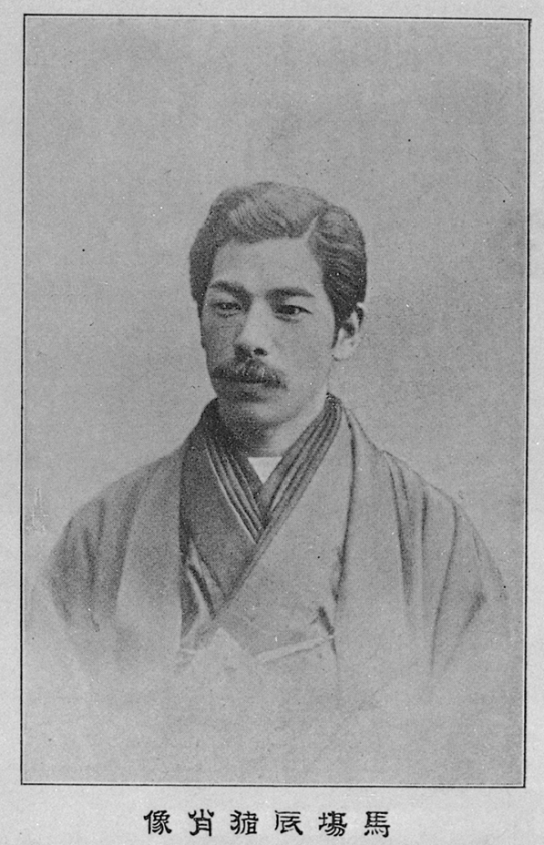 Portrait of Baba Tatsui (馬場辰猪, 1850 – 1888)